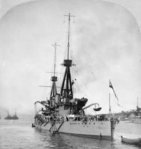 Photograph of British battlecruiser HMS Indomitable (1907) at the Quebec Tercentenary of 23 July 1908.